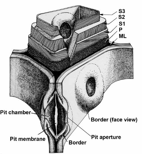 Cut-away drawing of the cell wall, including the structural details of a bordered pit. The various layers of the cell wall are detailed at the top of the drawing, beginning with the middle lamella (ML). The next layer is the primary wall (P), and on the surface of this layer the random orientation of the cellulose microfibrils is detailed. Interior to the primary wall is the secondary wall in its three layers: S1, S2, and S3. The microfibril angle of each layer is illustrated, as well as the relative thickness of the layers. The lower portion of the illustration shows bordered pits in both sectional and face view.